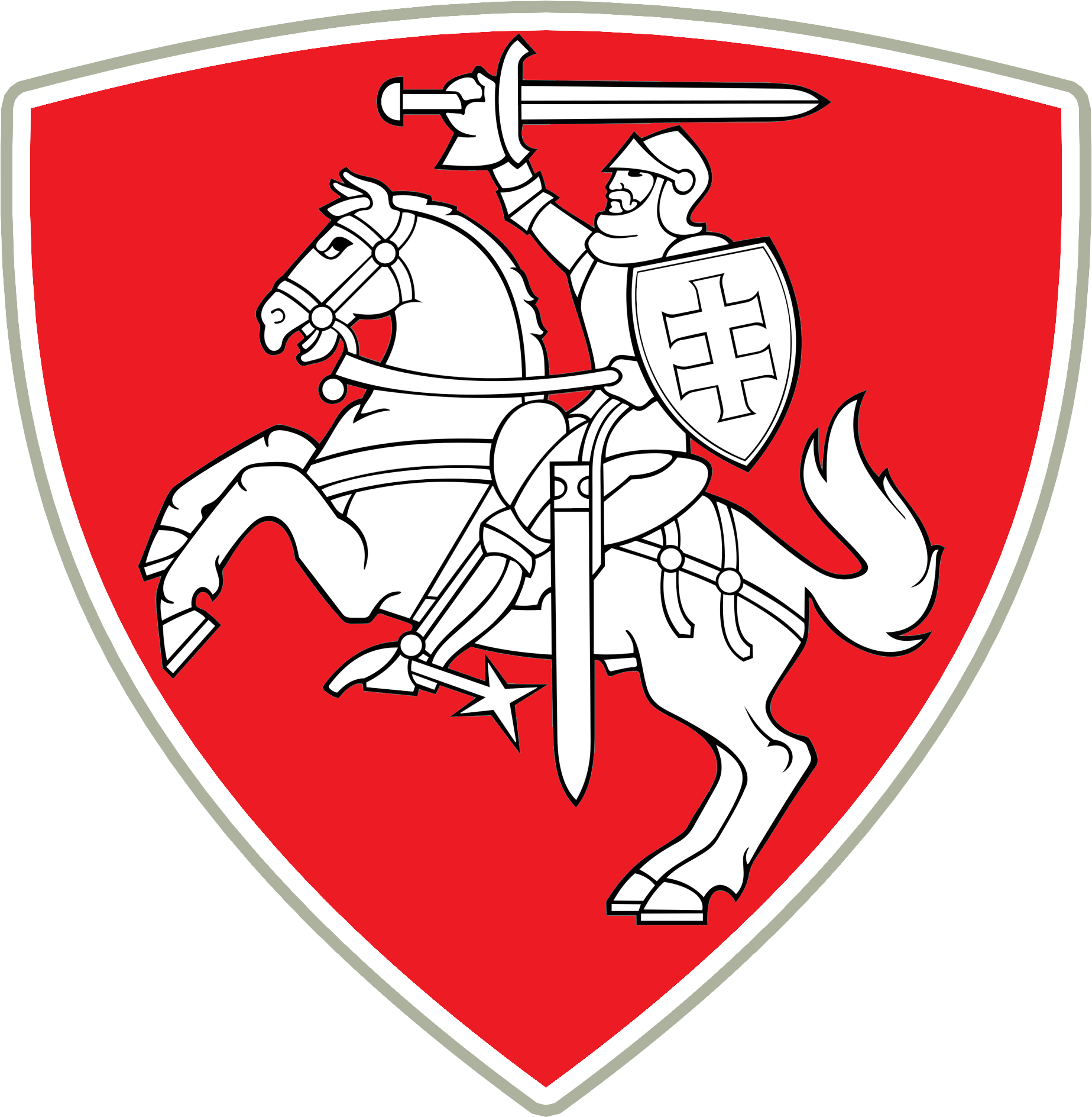 The coat of arms of Lithuania, entitled "Vytis"